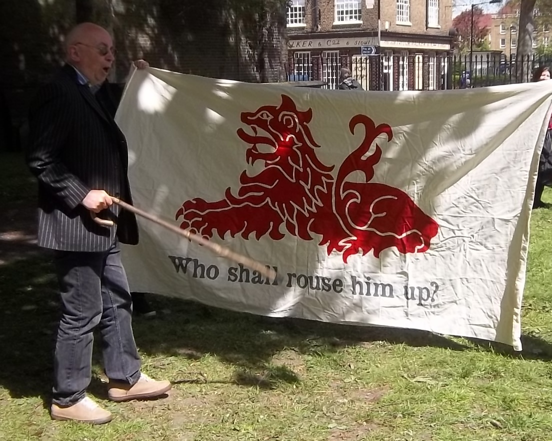 Ian Bone with a reproduction of the banner of the Fifth Monarchy Men, representing the Lion of Judah, i.e. Christ as the head of the millenary kingdom